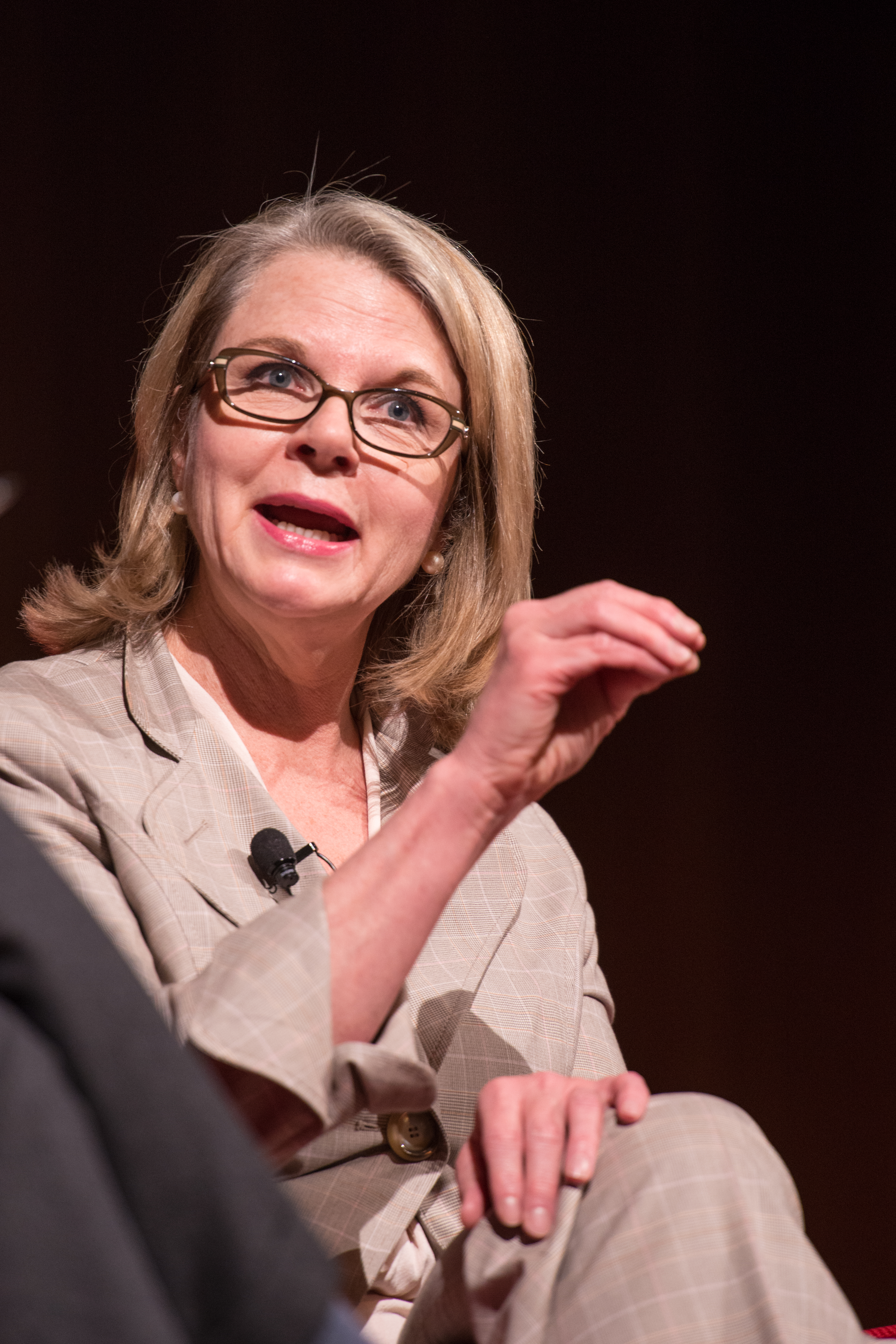 Margaret Spellings, President of the George W. Bush Center and former Secretary of Education, and U.S. Representative George Miller discuss the state of education today with Bob Schieffer, CBS News reporter.